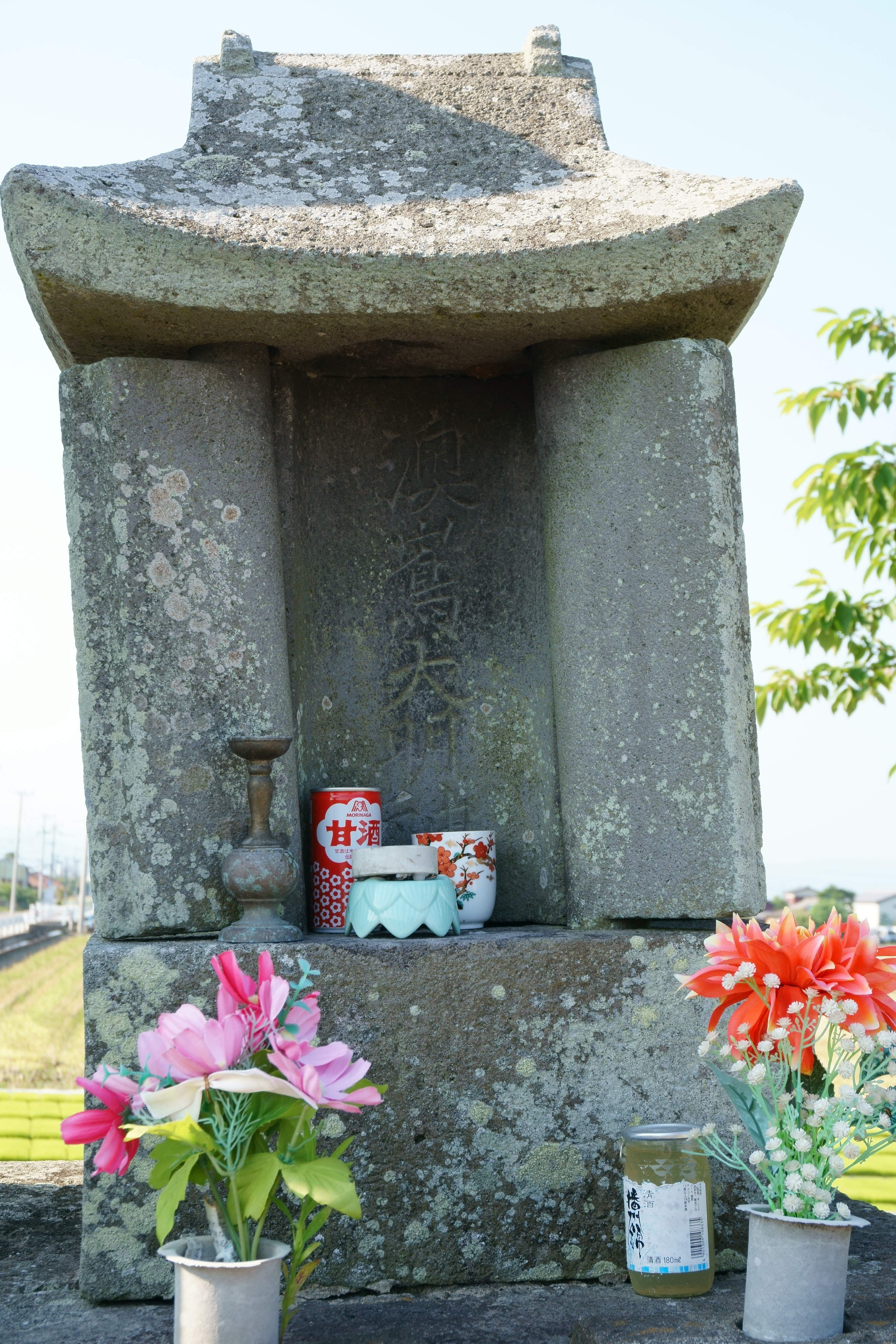 Hokora(small shrine) of Okishima Daimyojin(the God of Okinoshima Reef) at Hachiman-sha Shrine, built in 1740, in Karamihigashi, Hisadomi, Kubota-cho, Saga city, Saga prefecture.